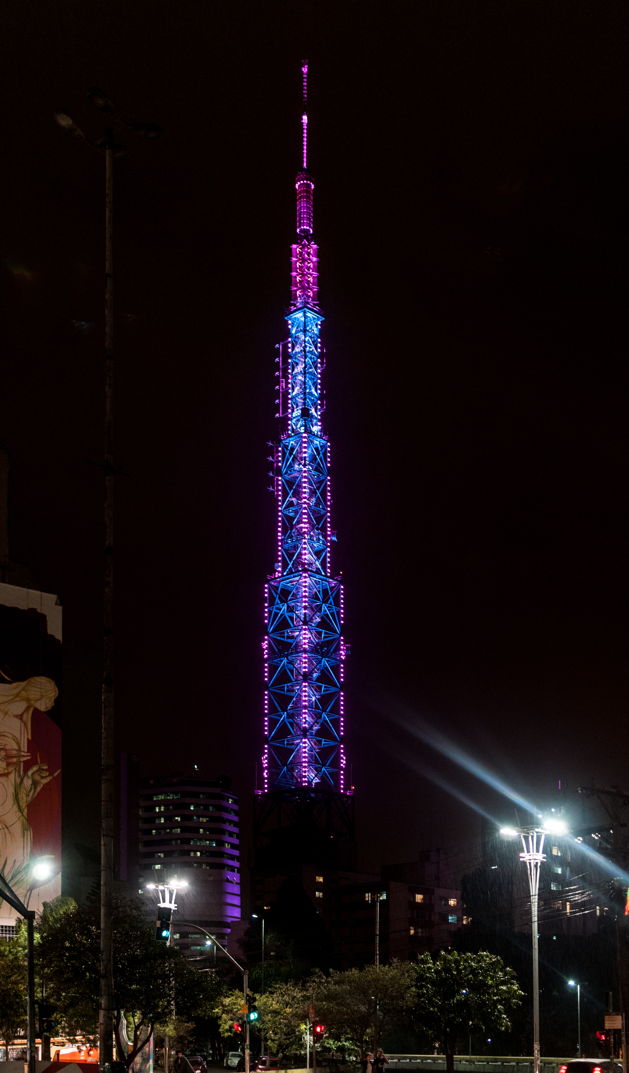 Night view of Torre da Band, taken from Rua da Consolação, just after crossing Avenida Paulista